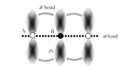 Sigma and Pi bonds and the conduction mechanism in graphene